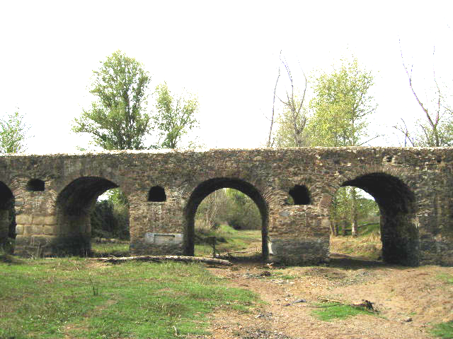 Roman bridge over the Odivelas river, municipality Cuba, Baixo Alentejo, Portugal